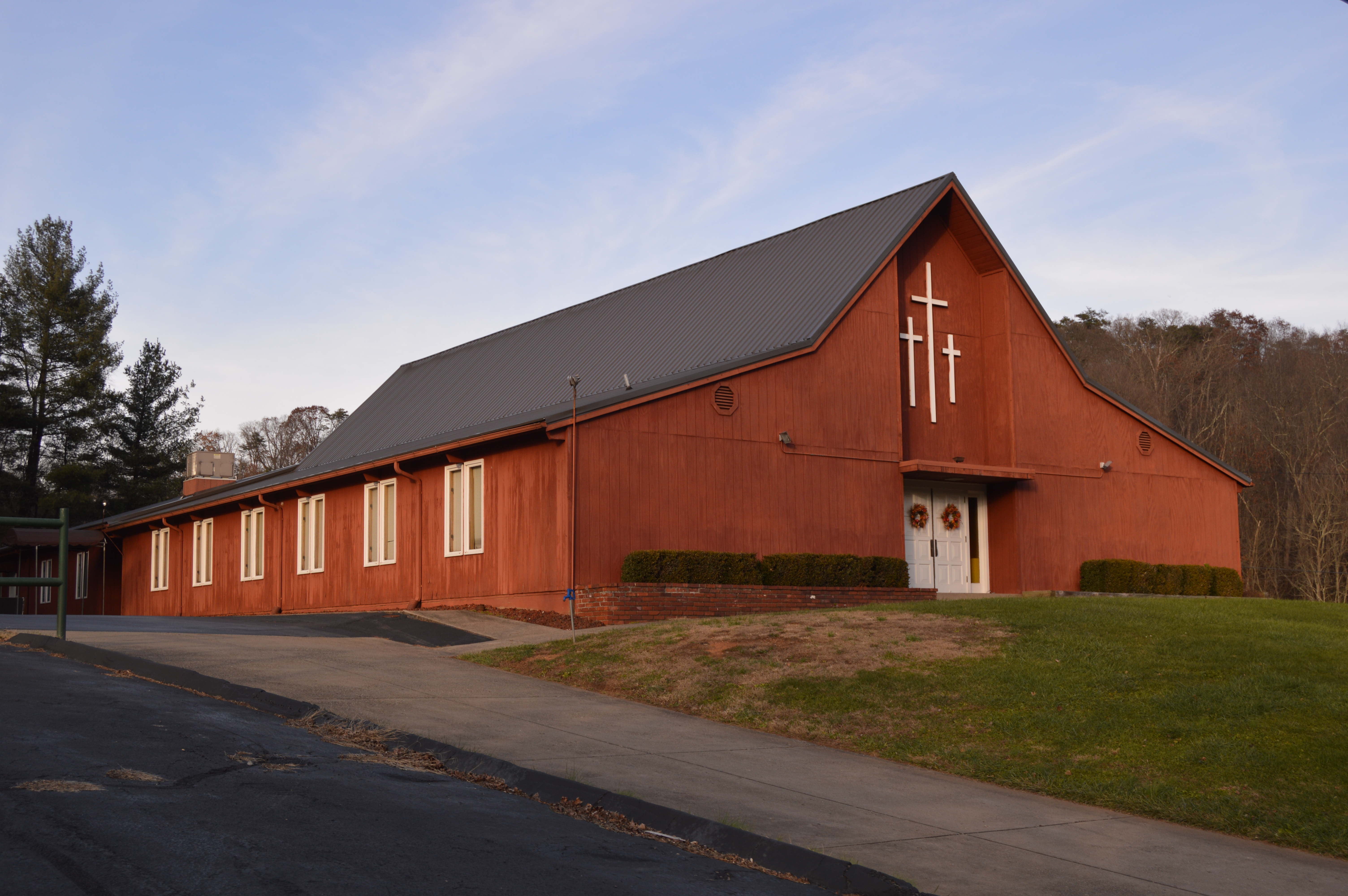 Front and western side of Pinehurst Christian Church, located at 20307 State Route 550 at Pinehurst in Warren Township, Washington County, Ohio, United States.